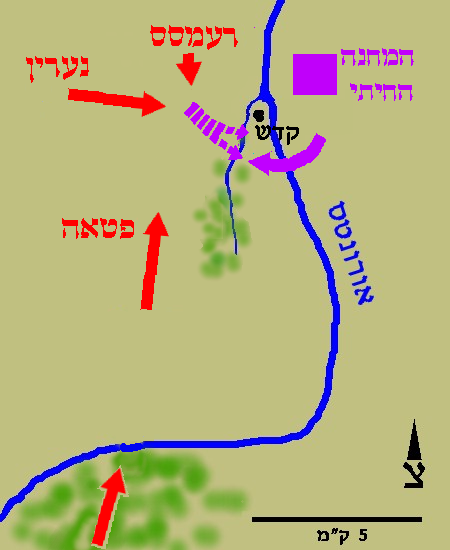 Map of the Battle of Kadesh.